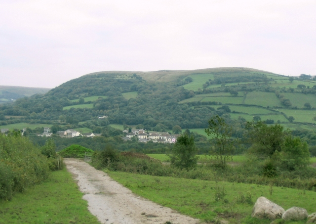 Outcrop at north end of Betws Mountain. This is the view southwest to where the mountain protrudes over Glanamman. On the horizon to the left is visible the gap that becomes Cwm Garenig.